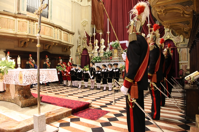 This file concerns heading Niardo in particular the voice of the cuirassiers of sant obitius